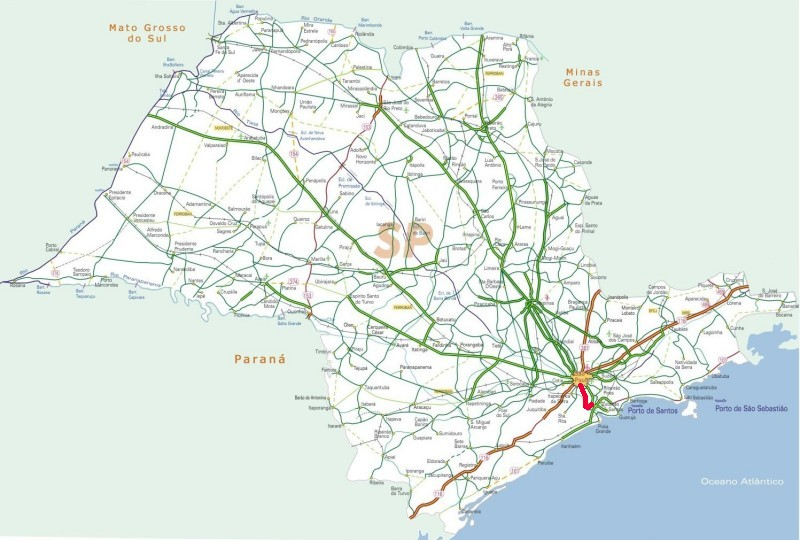 Map of Rodovia dos Imigrantes, a highway in the state of São Paulo, Brazil, drawn on a public domain map by the Ministry of Transportation, Brazil.